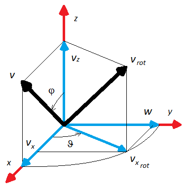 Figure describing Rodrigues' rotation formula